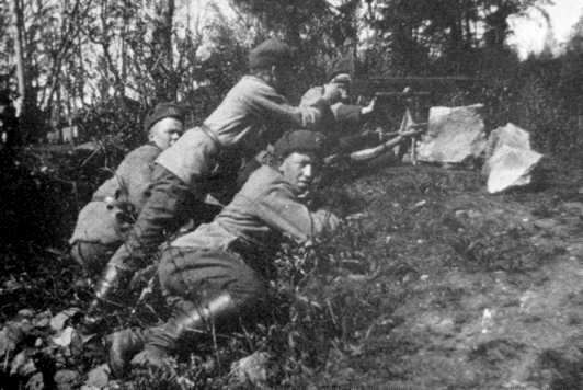 White guardists shooting with a machine gun during the battle of Lempäälä in 1918 Finnish Civil War. Reino Hallamaa is shooting.